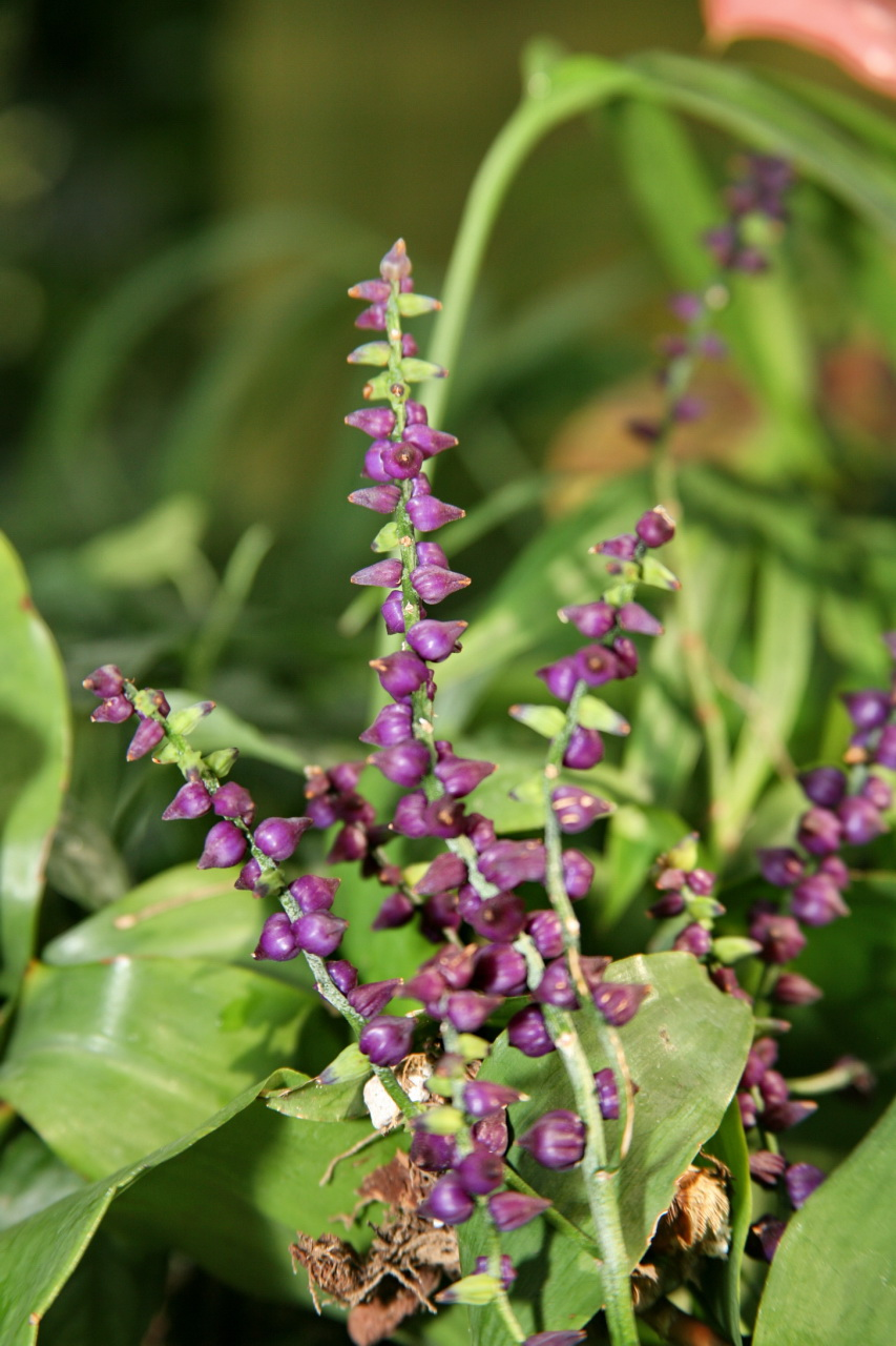 Lymania smithii Member of the Bromeliad family - Bromeliaceae